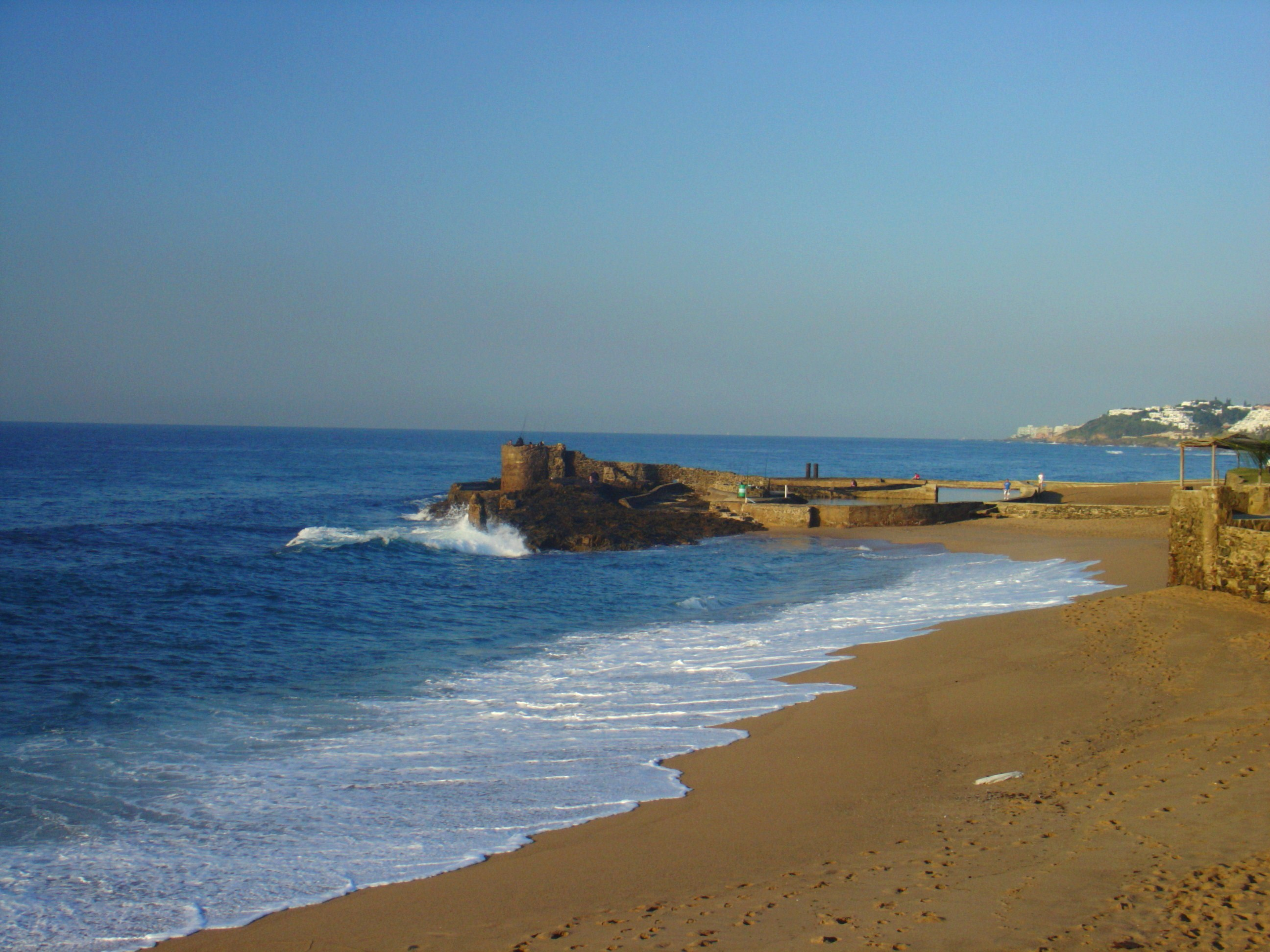 Looking south over the beach and rocks in front of the Salt Rock Hotel